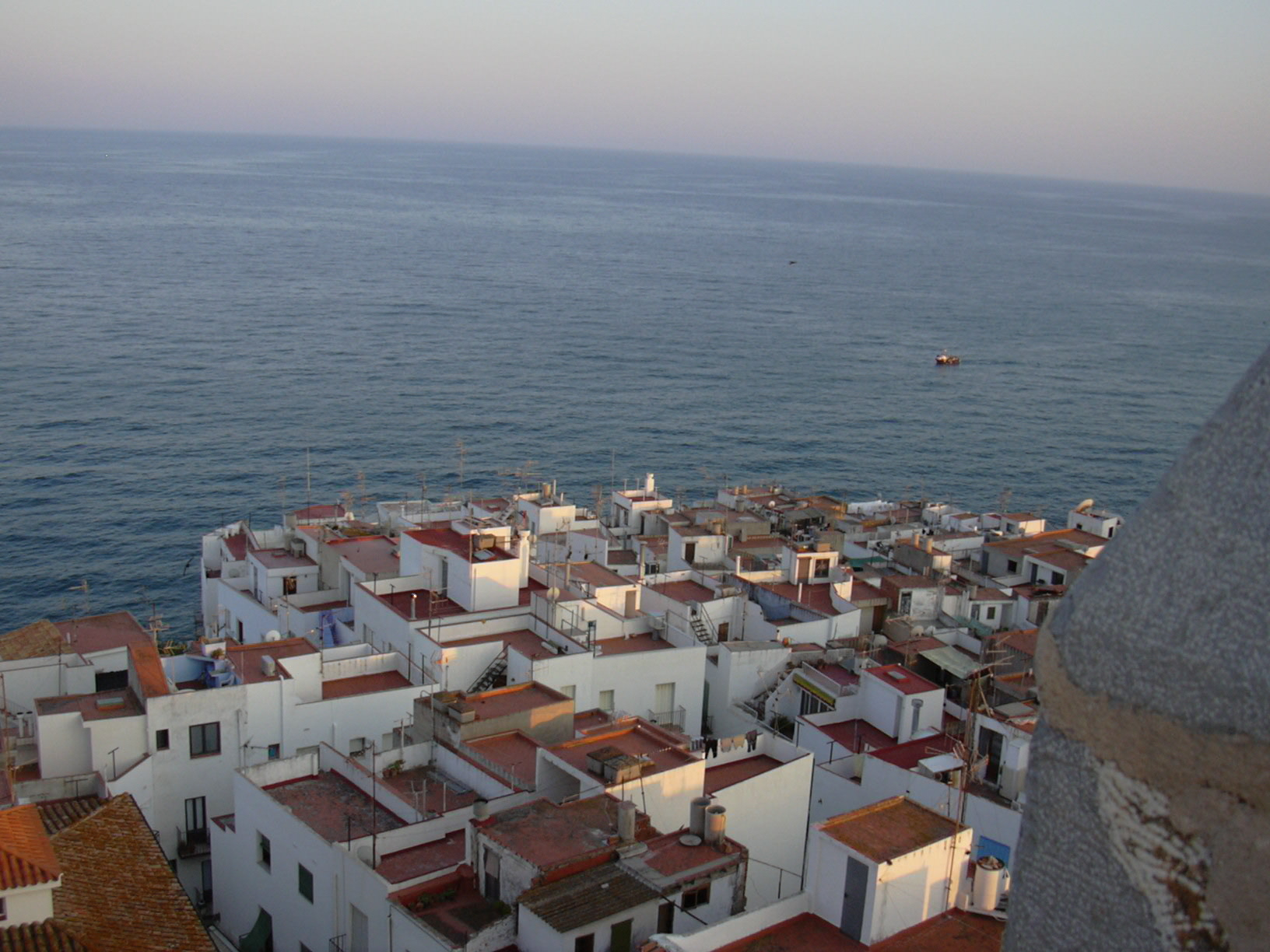 View of the old side of the city, from the Castle.